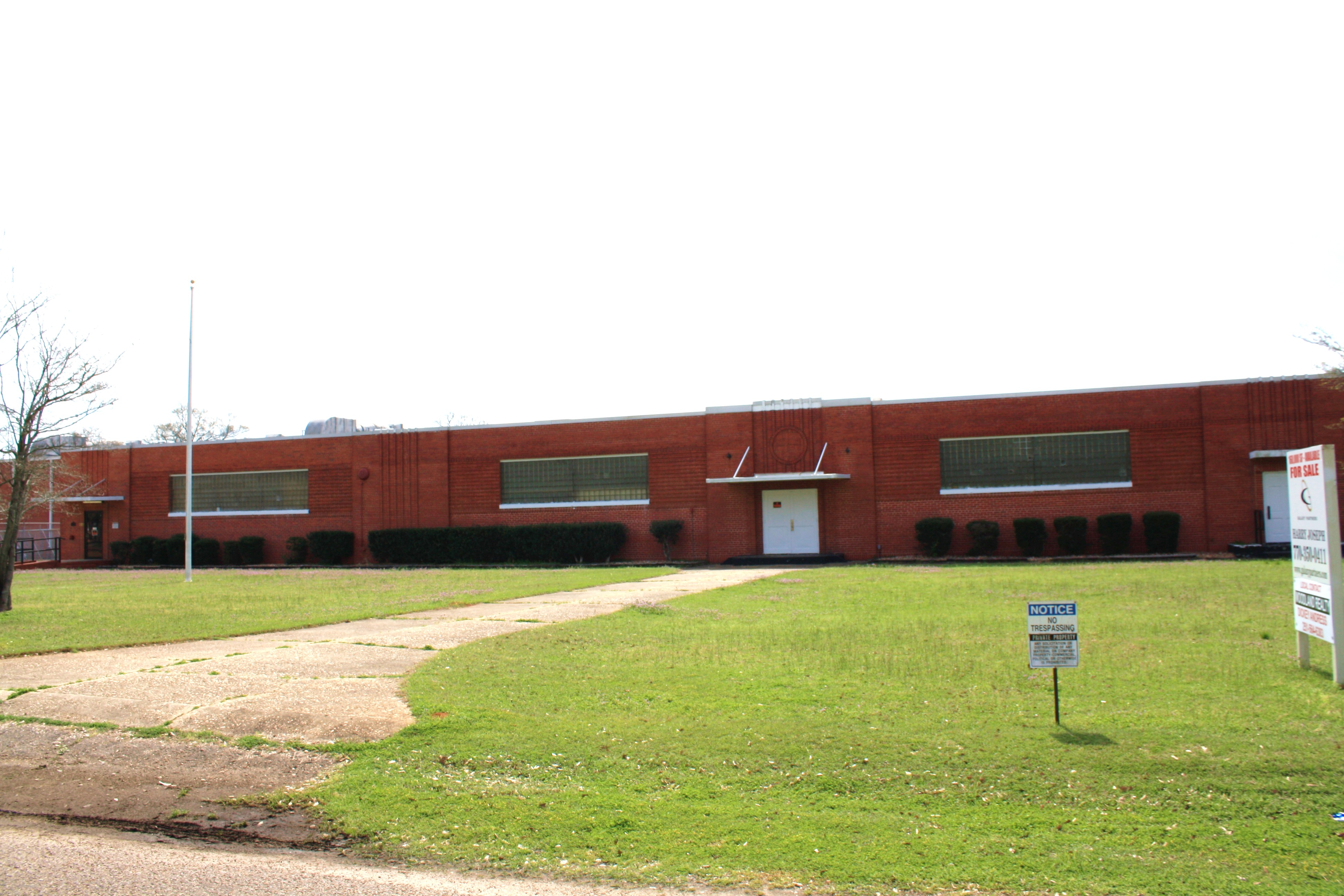 Clarke Mills in Grove Hill, Clarke County, Alabama. Built in 1939, it is on the National Register of Historic Places.